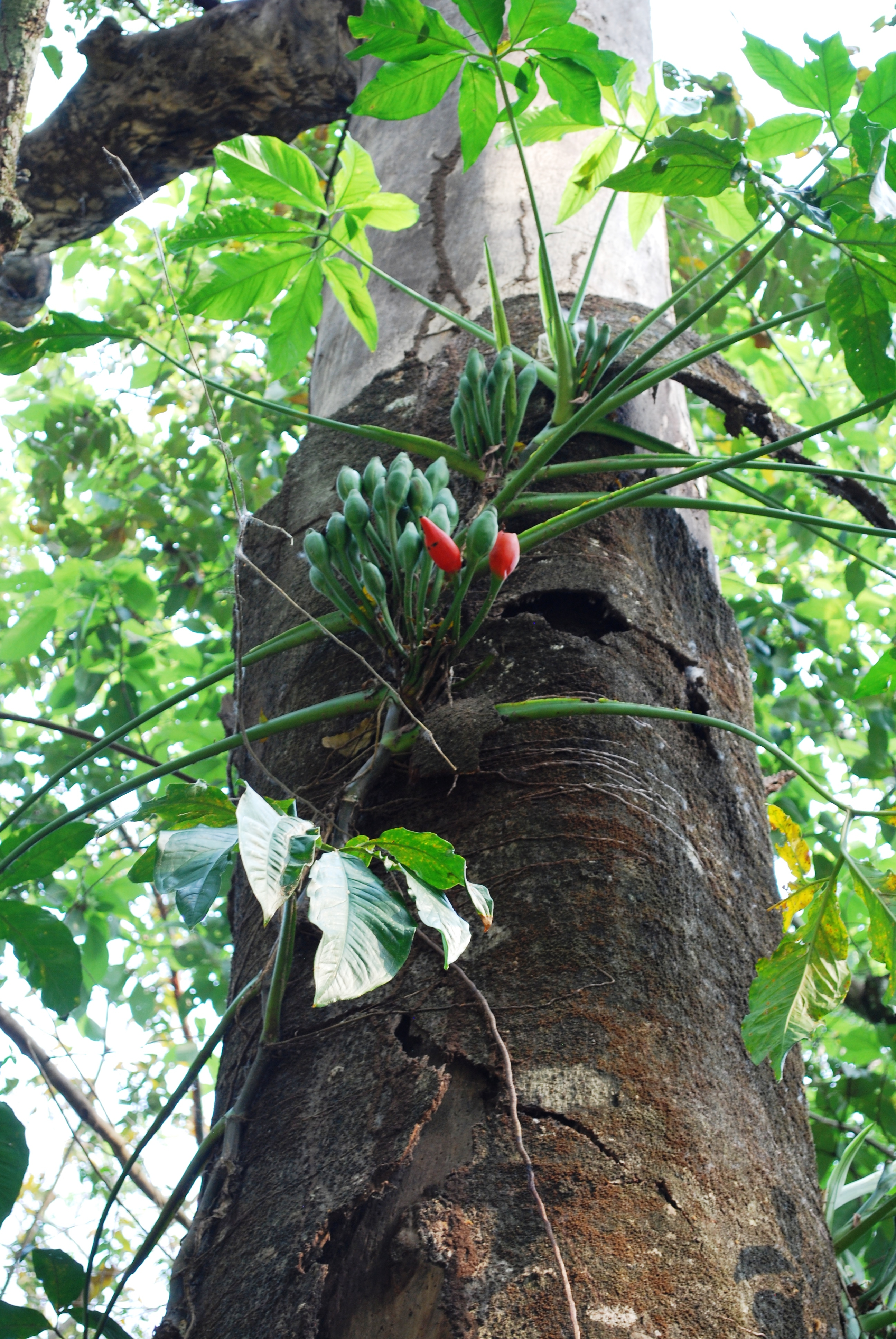 Unknown Araceae growing on a tree at the archeological site of Palenque, Chiapas, Mexico